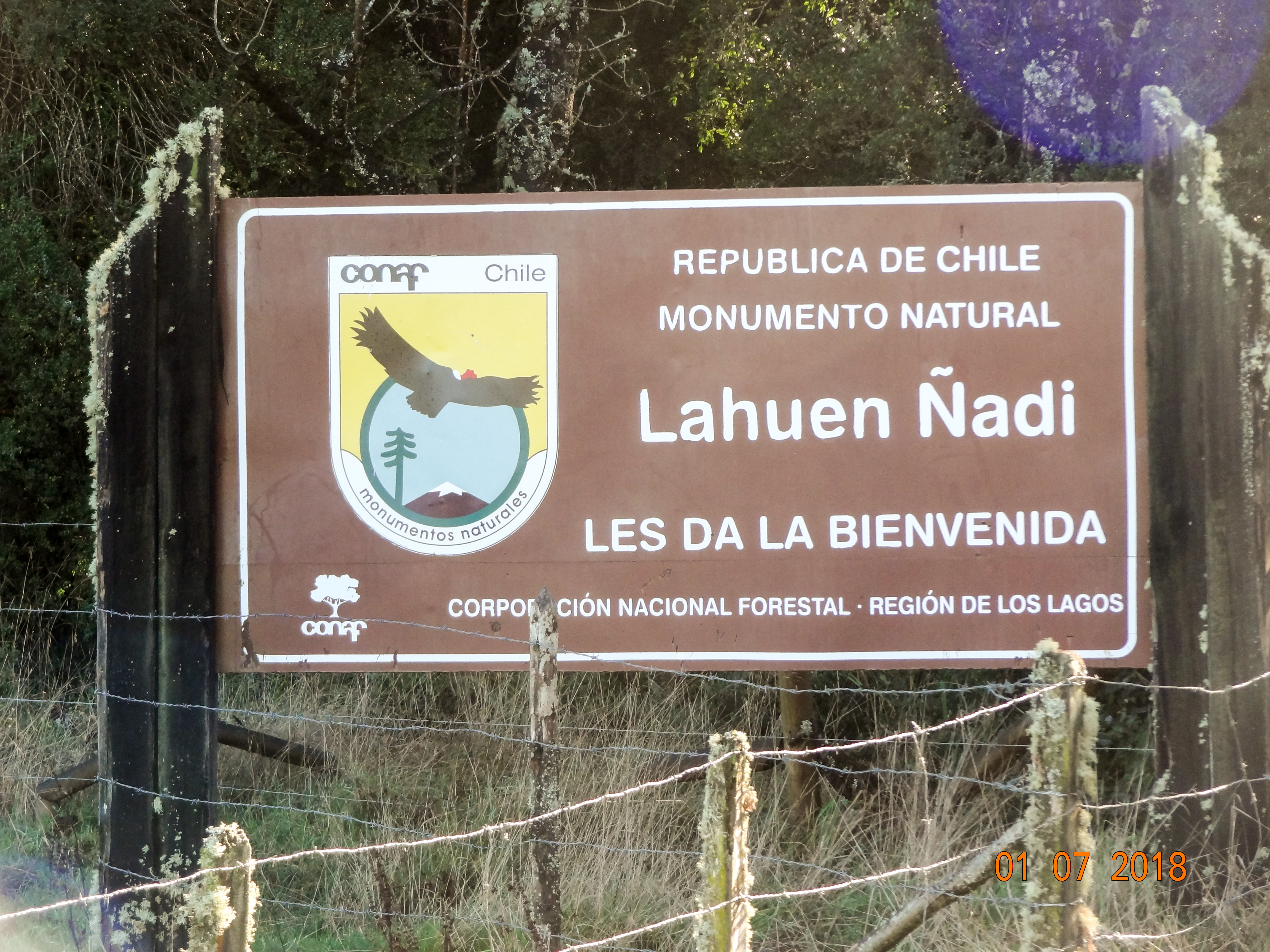 Natural monument Lahuen Ñadi